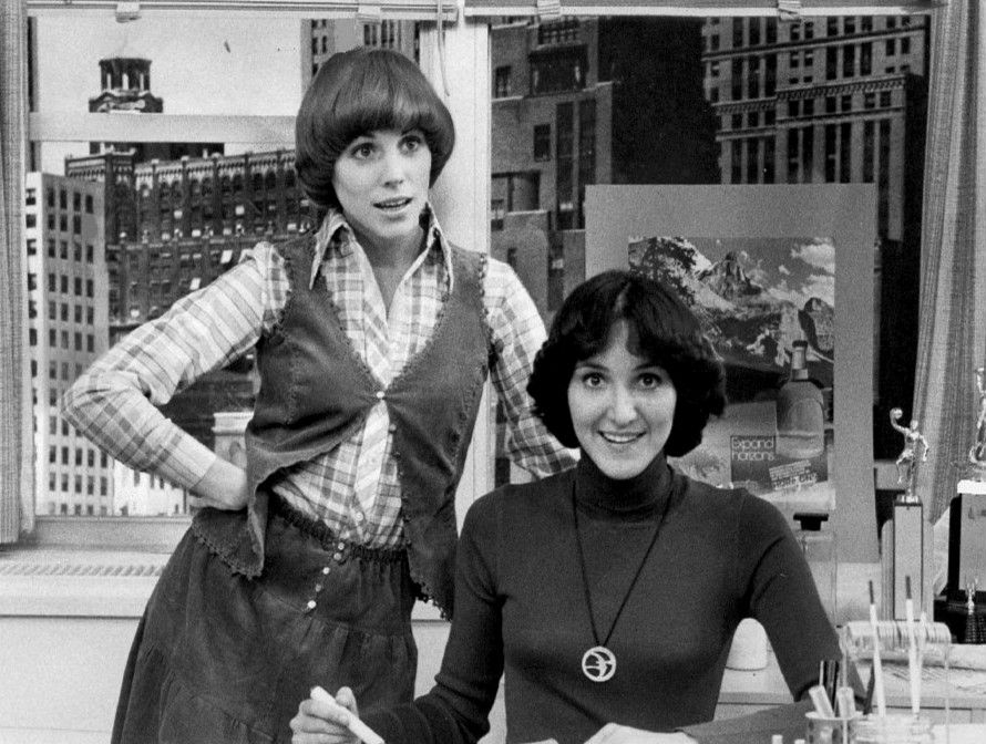 Publicity photo from the television program On Our Own. Pictured are Bess Armstrong (standing) and Lynnie Greene.